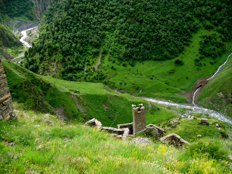 North Georgia, Khevsureti. Mutso complex (UTM/UPS coordinates nof the upper part: X-517050.025; Y-4717321.91. Altitude of the upper part of the complex ~ 1730 m above sea level) is situated on the right bank of Andakis Tskali River. According to the legend one of the first buildings - Torgva Castle - was erected approximately in the XI century A.D. The height of the upper part is approximately 200 m.